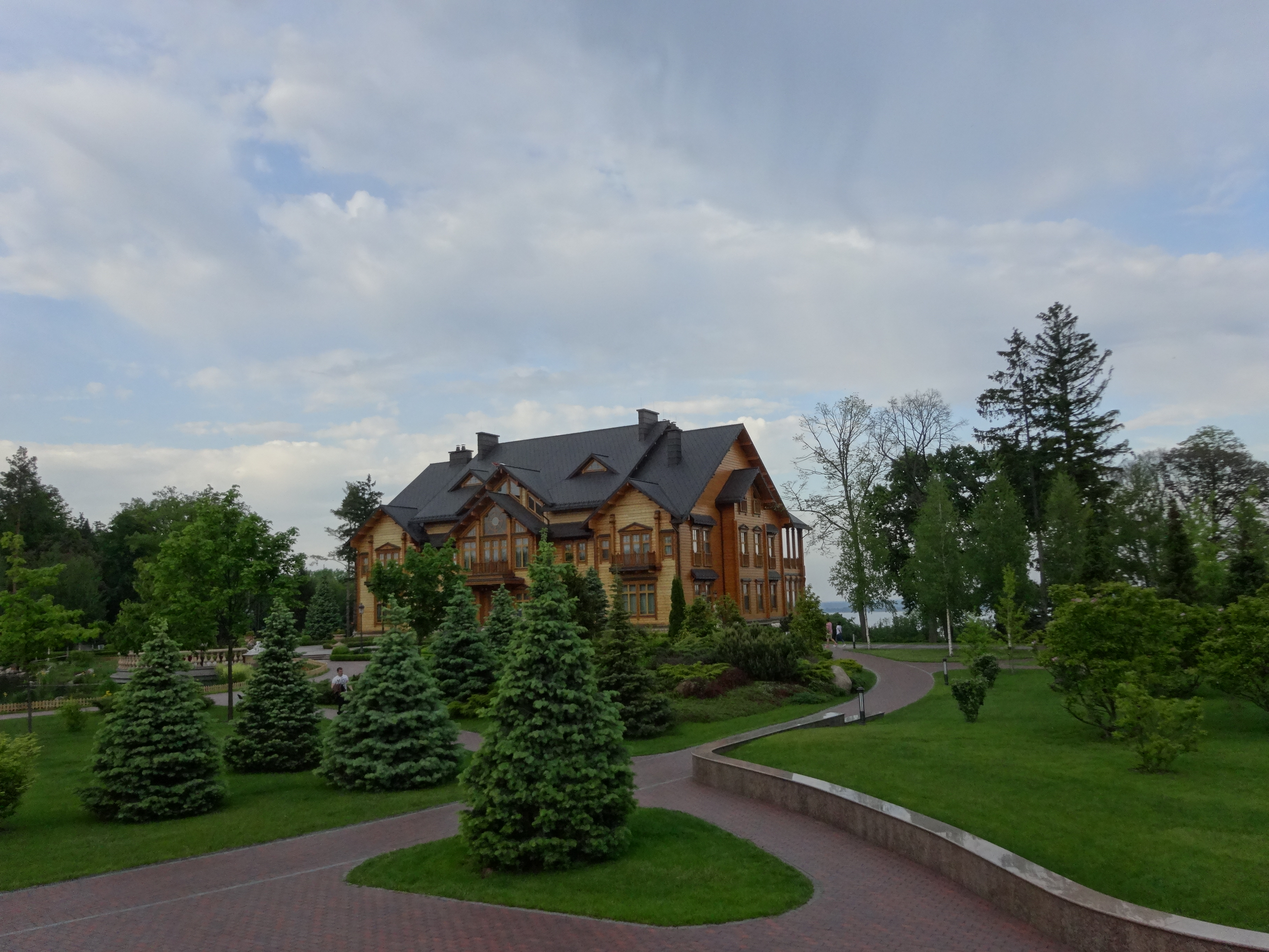 Yanukovich's former palace near Kiev